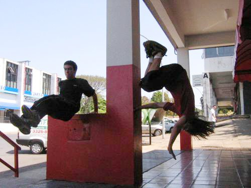 Parkour - Dash Vault and Wallspin